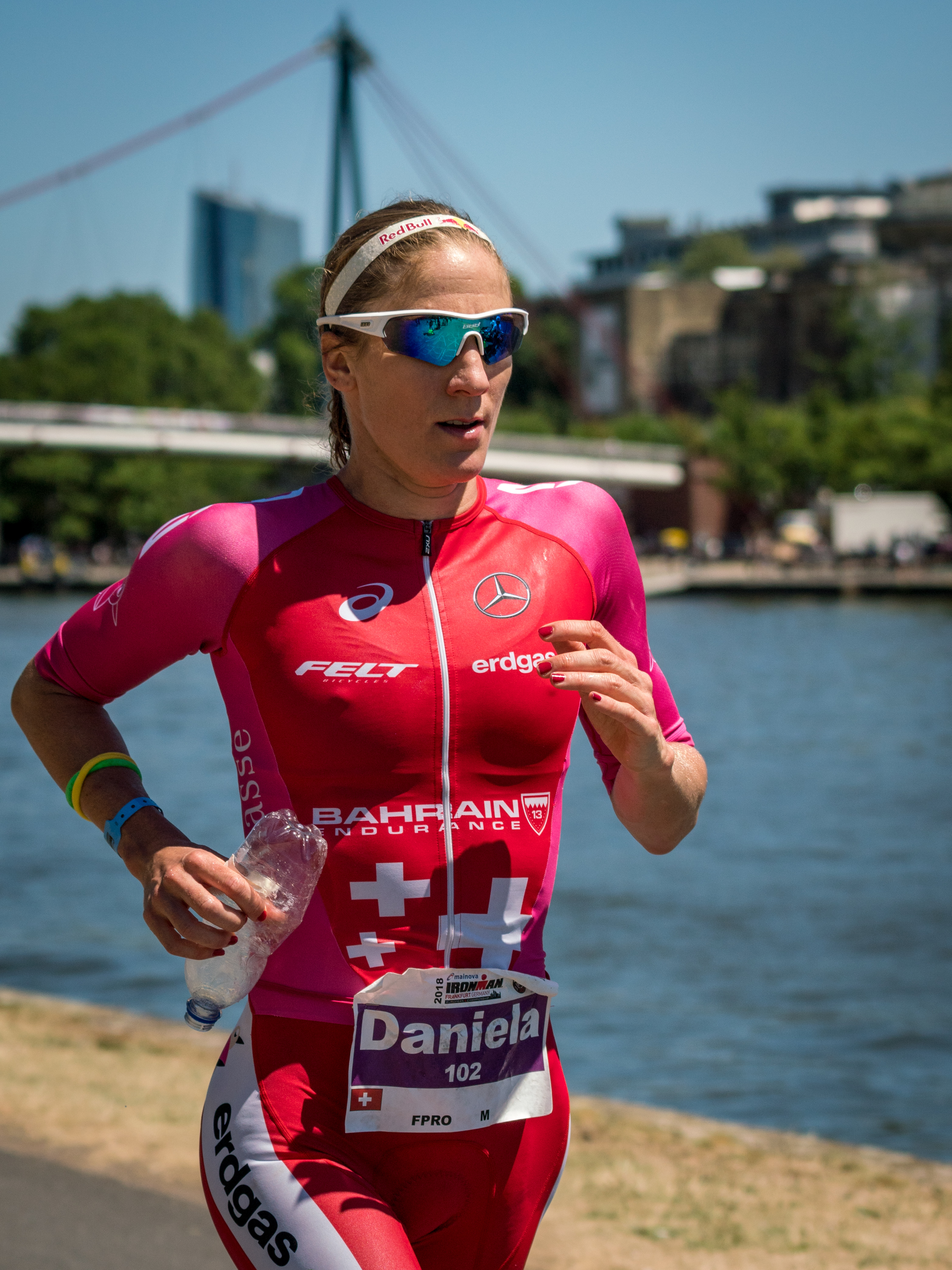 First female Daniela Ryf at the 2018 Ironman European Championship in Frankfurt am Main (Germany).